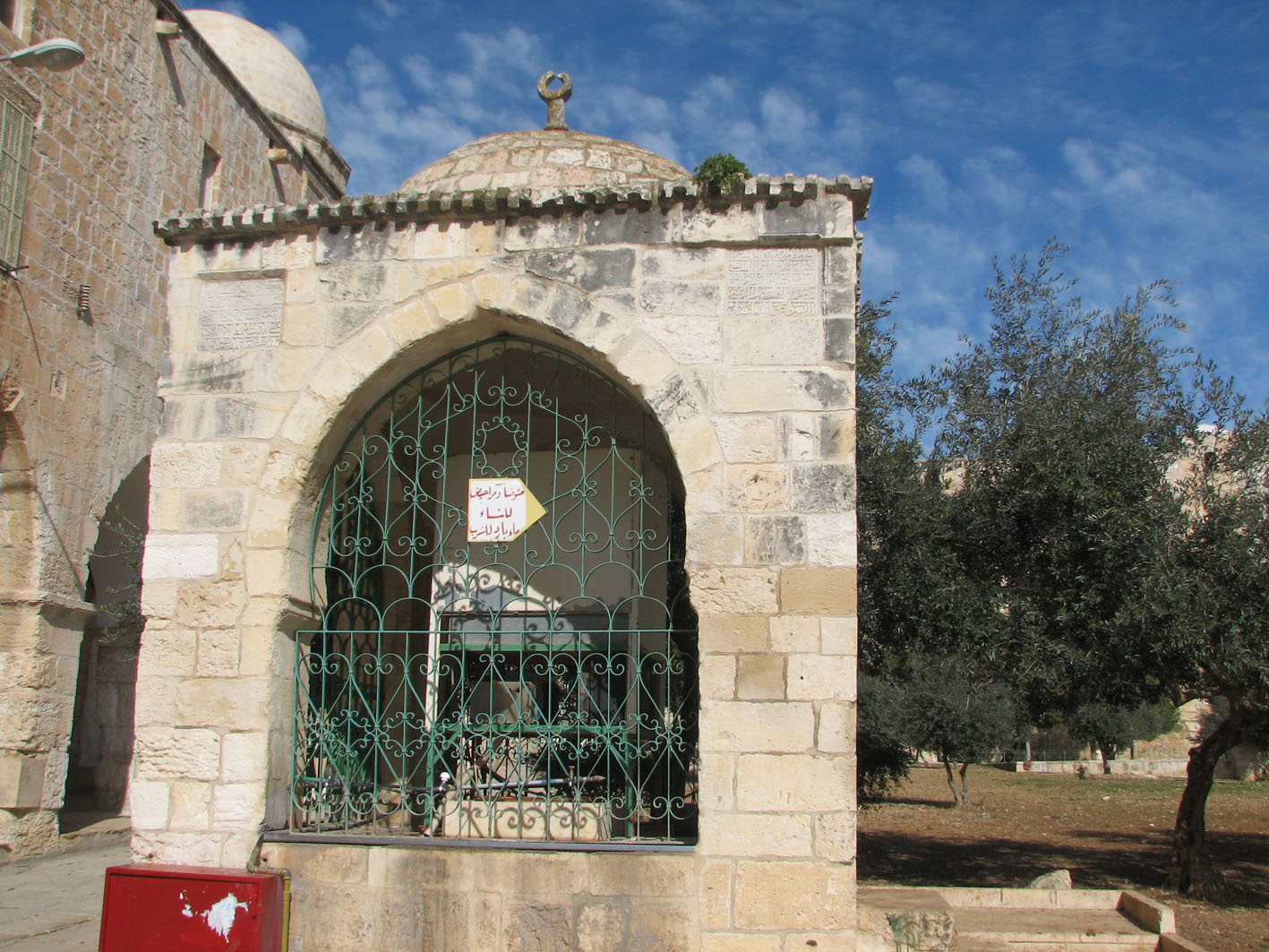 Al-Aqsa Mosque